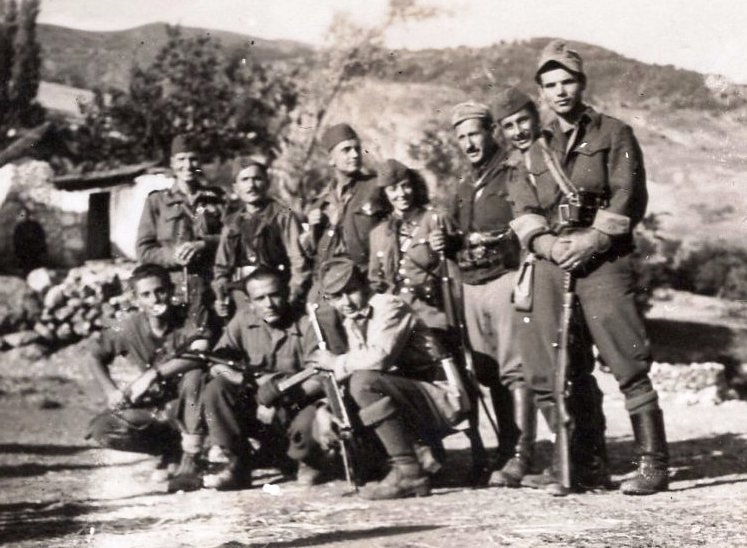 Commanders and Commissioners of the First Macedonian and First Albanian brigade, 1944Shqip: Komandantët dhe komisarët e brigadës së Parë Maqedonase dhe brigadës së Parë Shqiptare, 1944 This media file is produced by Wikipedian in Residence in Category:Wikipedian in Residence at DARM in 2016.